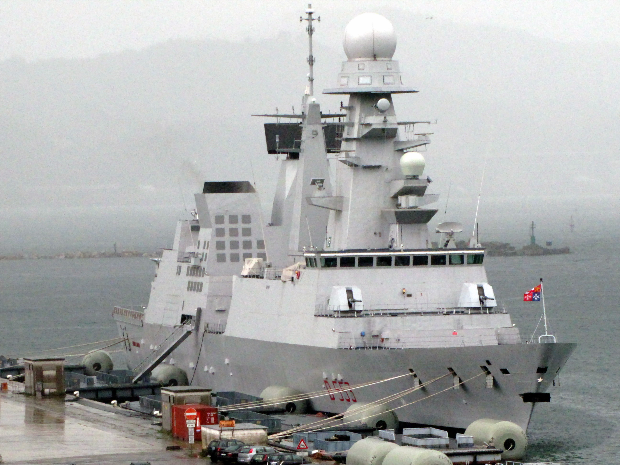 Italian destroyer Andrea Doria at La Spezia